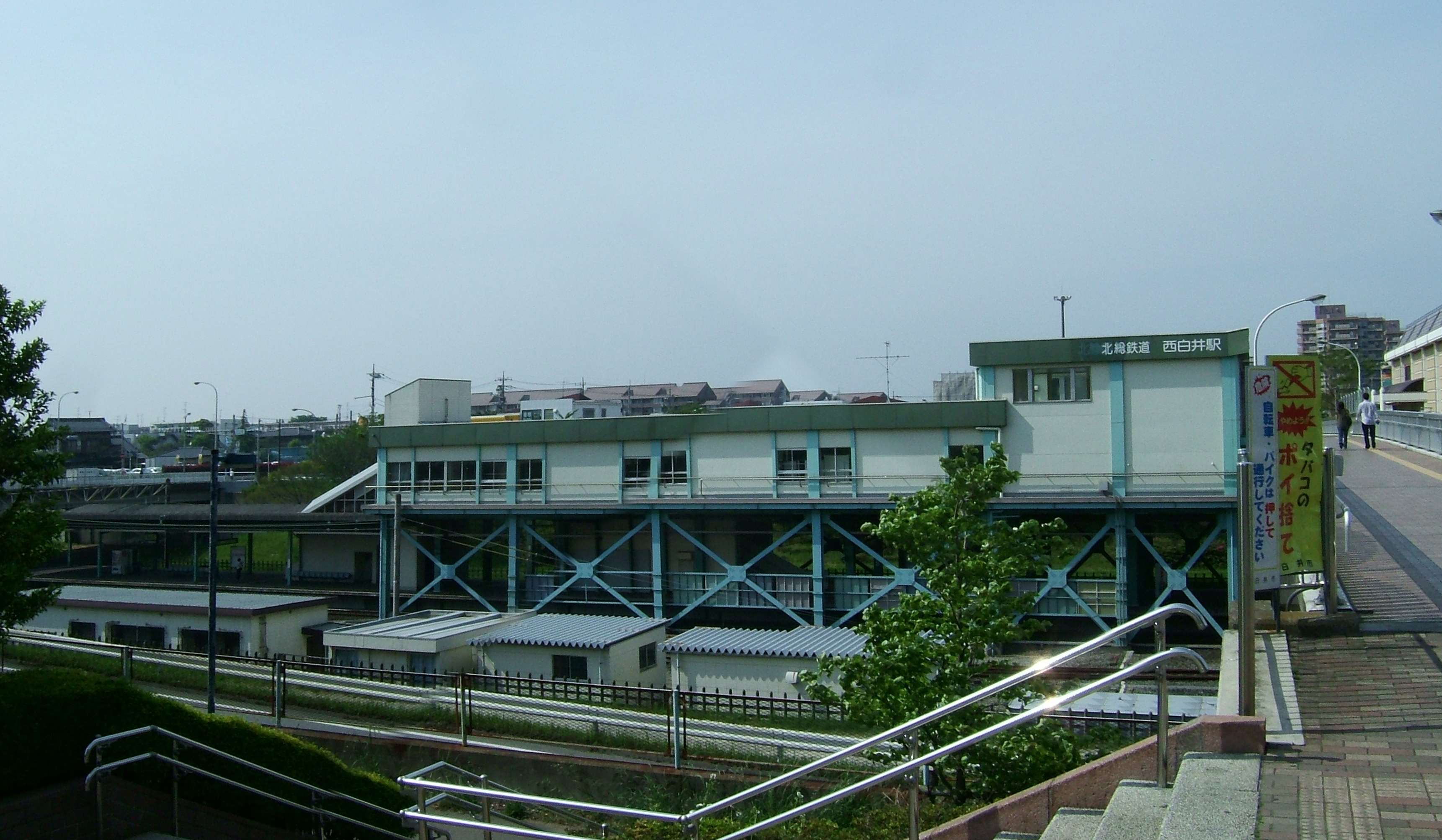 Nishi-Shiroi Station, Hokuso Line